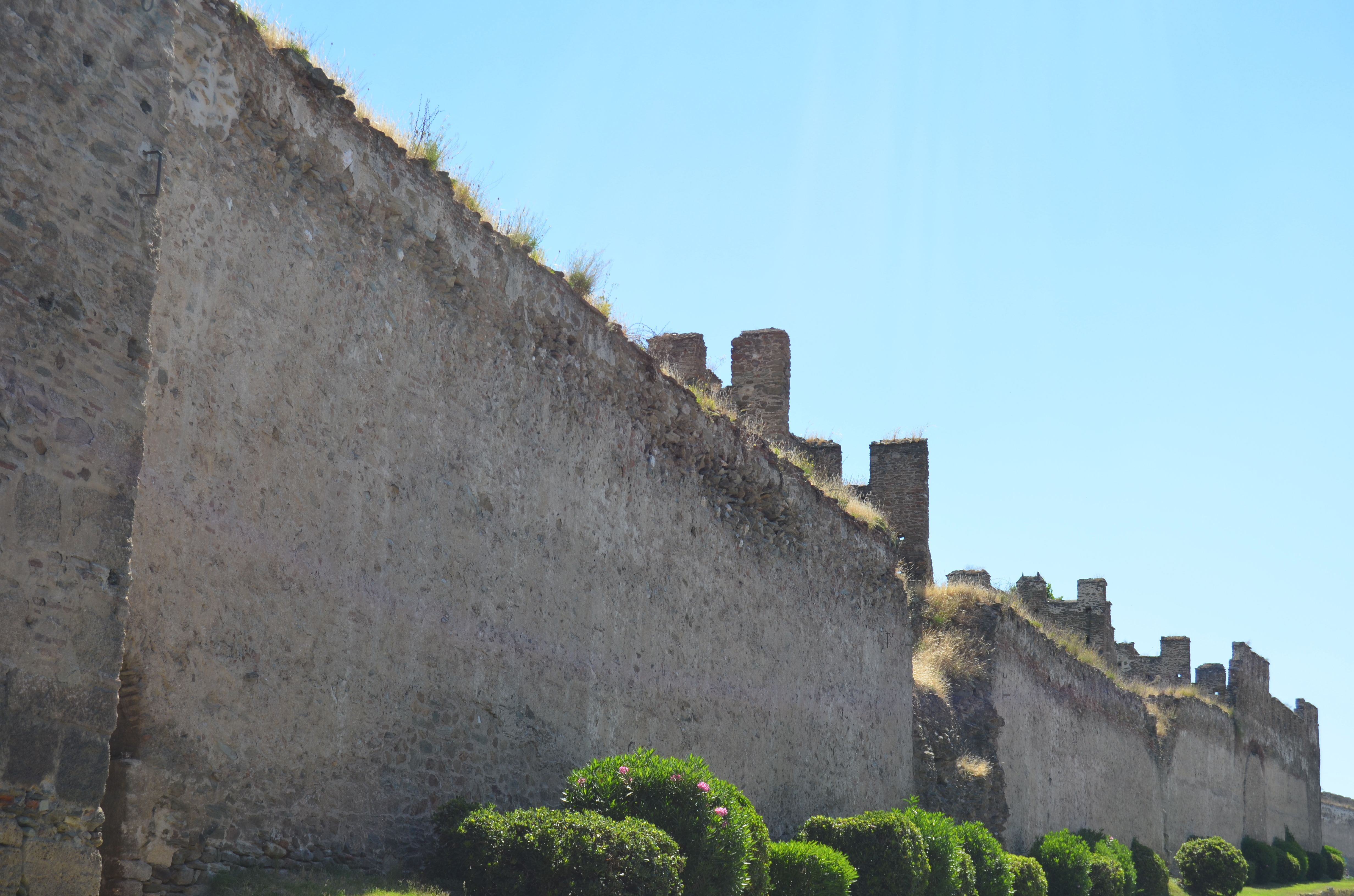 Protective arms